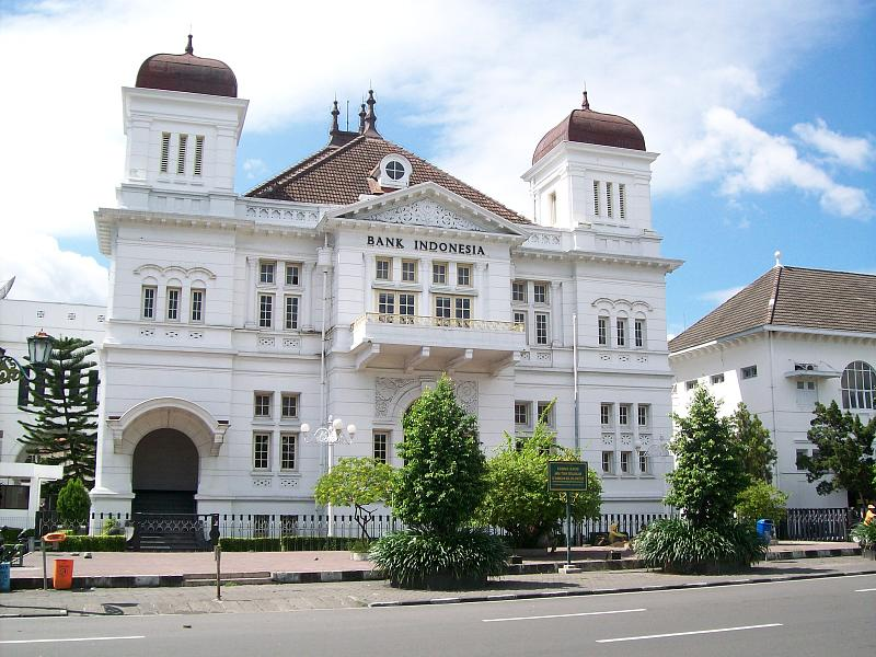 Bank of Indonesia in Yogyakarta